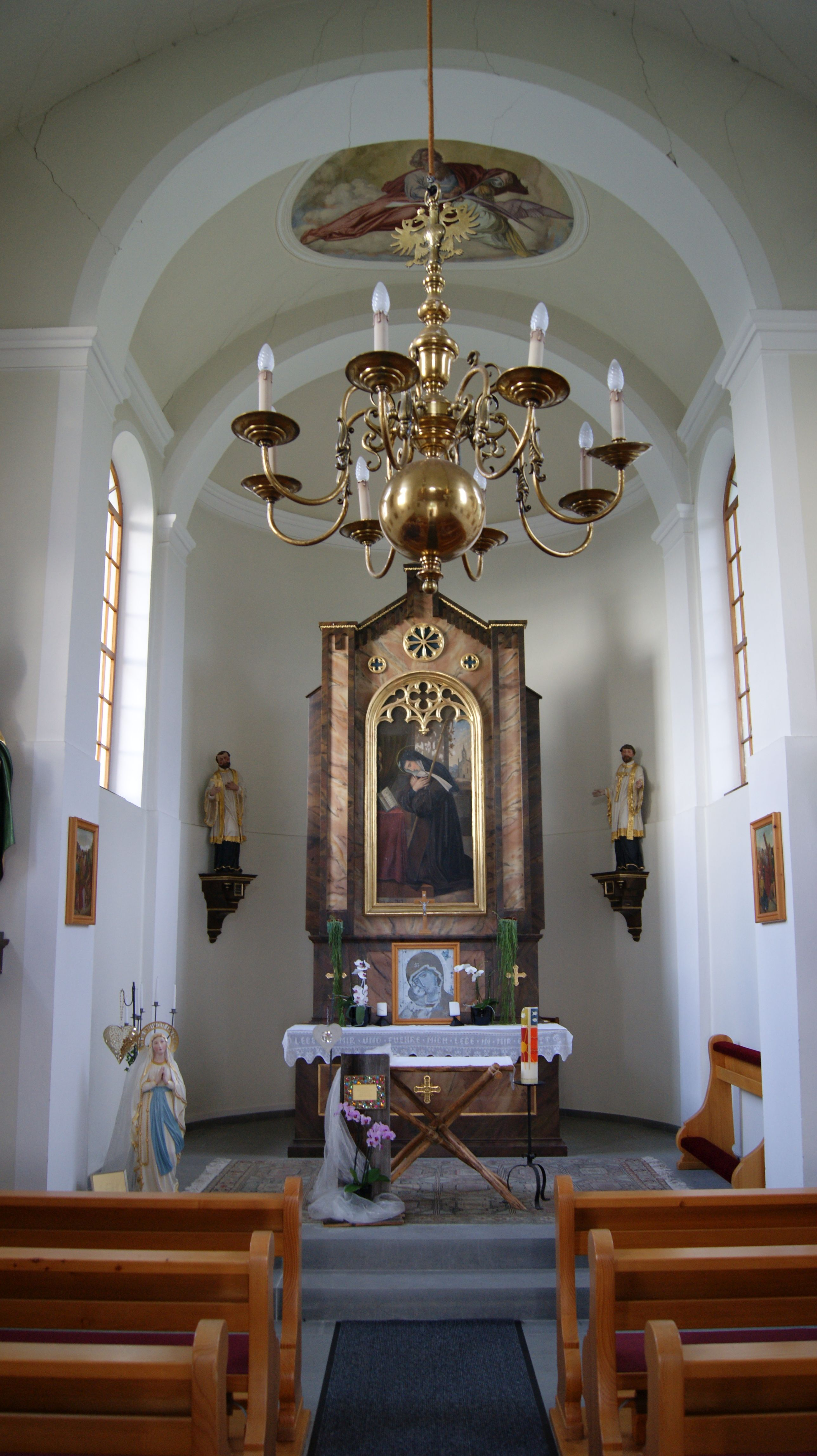 Chapel "Oberfallenberg" in Dornbirn, Vorarlberg, Austria. View from the entrance to the altar.